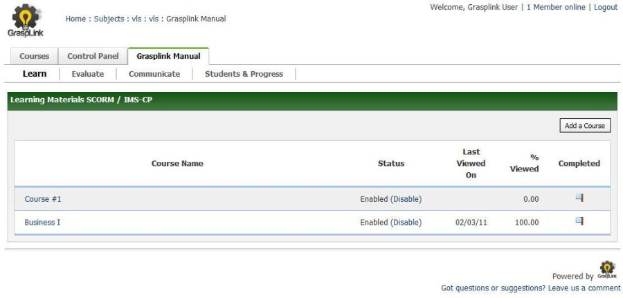 Upload your entire course content using standard formats such as SCORM.